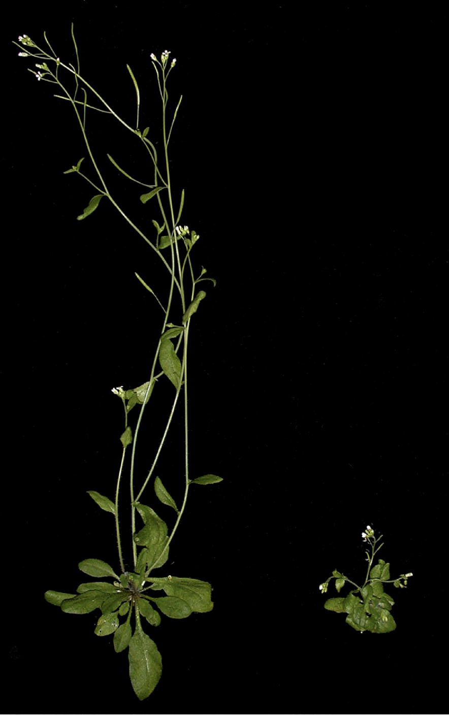 Wild type Arabidopsis thaliana (left), auxin signal-transduction mutant (axr2, right)